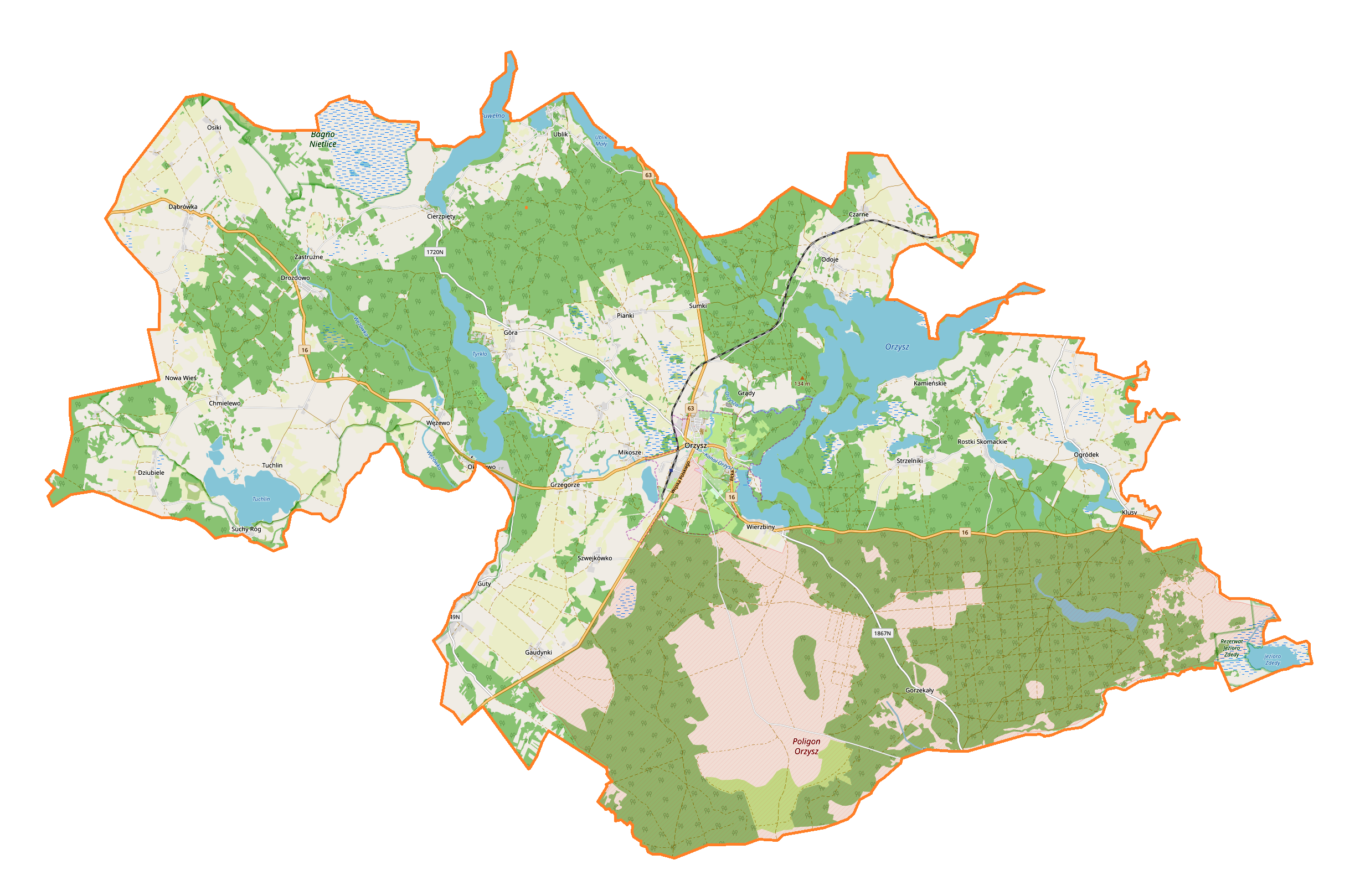 Location map